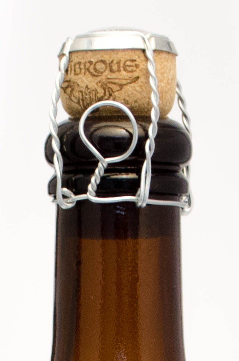 Beer bottle sealed with a cork and muselet